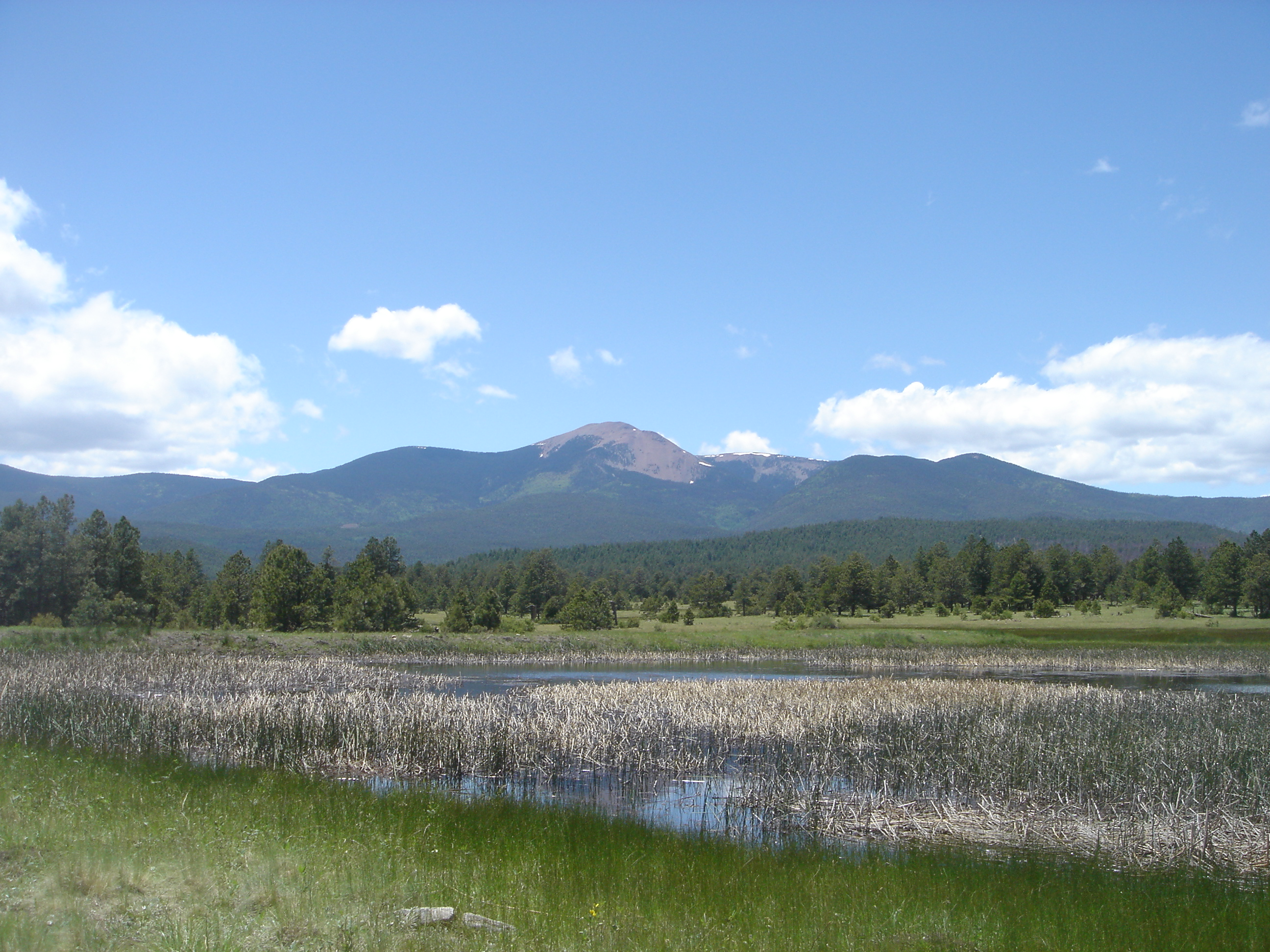 Baldy Mountain viewed from Wilson Mesa June 2007